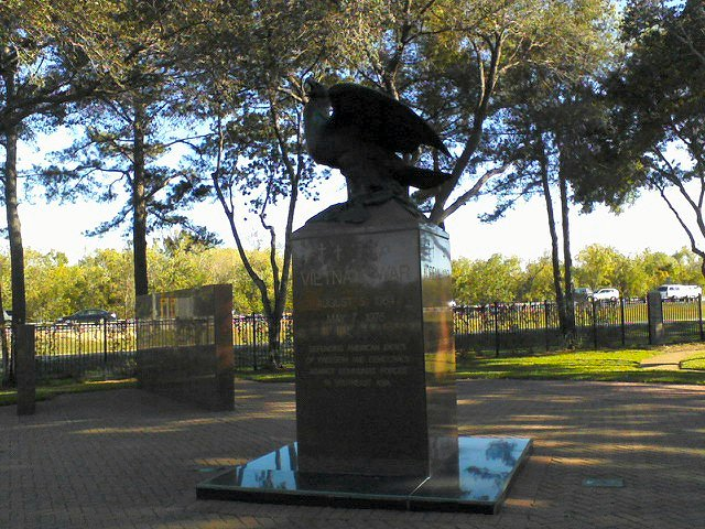 The Harris County War Memorial, located in Bear Creek Pioneers Park near Houston, Texas, recalls Harris county casualties in every conflict since World War 1.